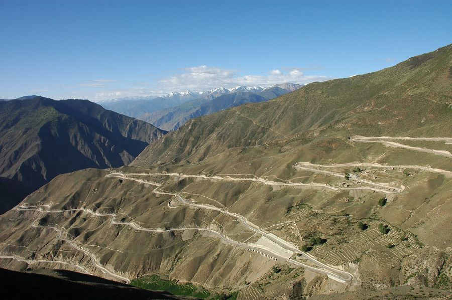 Ninety-nine Turns. Hairpin turns along the Sichuan-Tibet Highway 中文（中国大陆）: 川藏线－西藏八宿縣九十九道拐